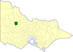 Location of the Shire of Donald within Victoria.